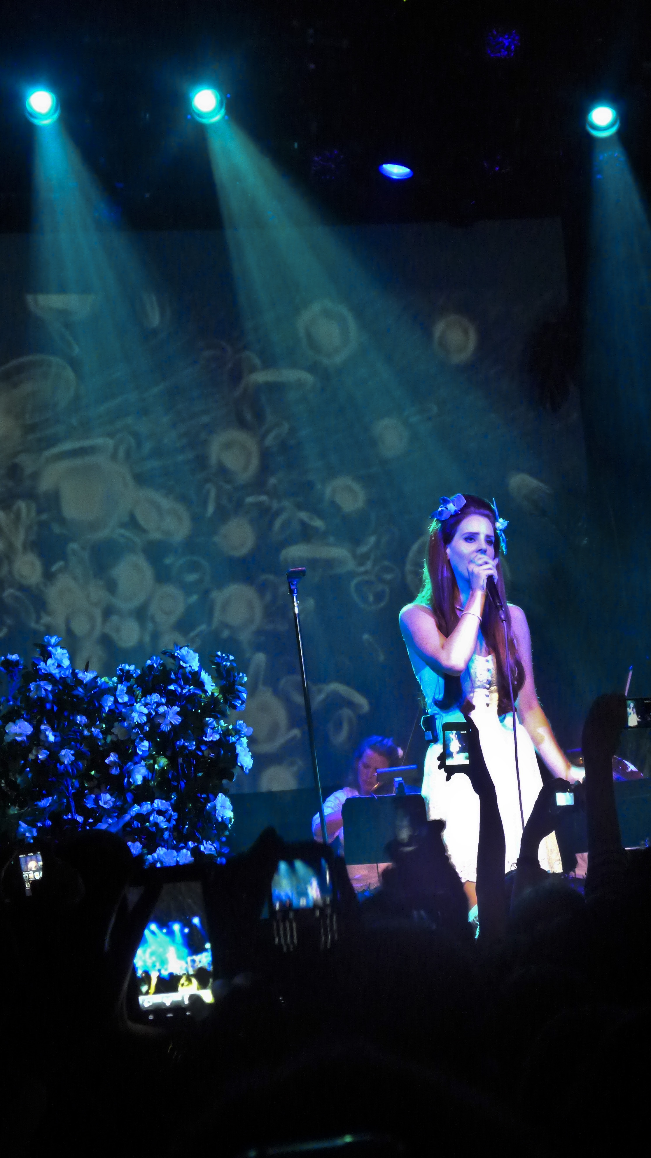 Lana Del Rey performing at Irving Plaza